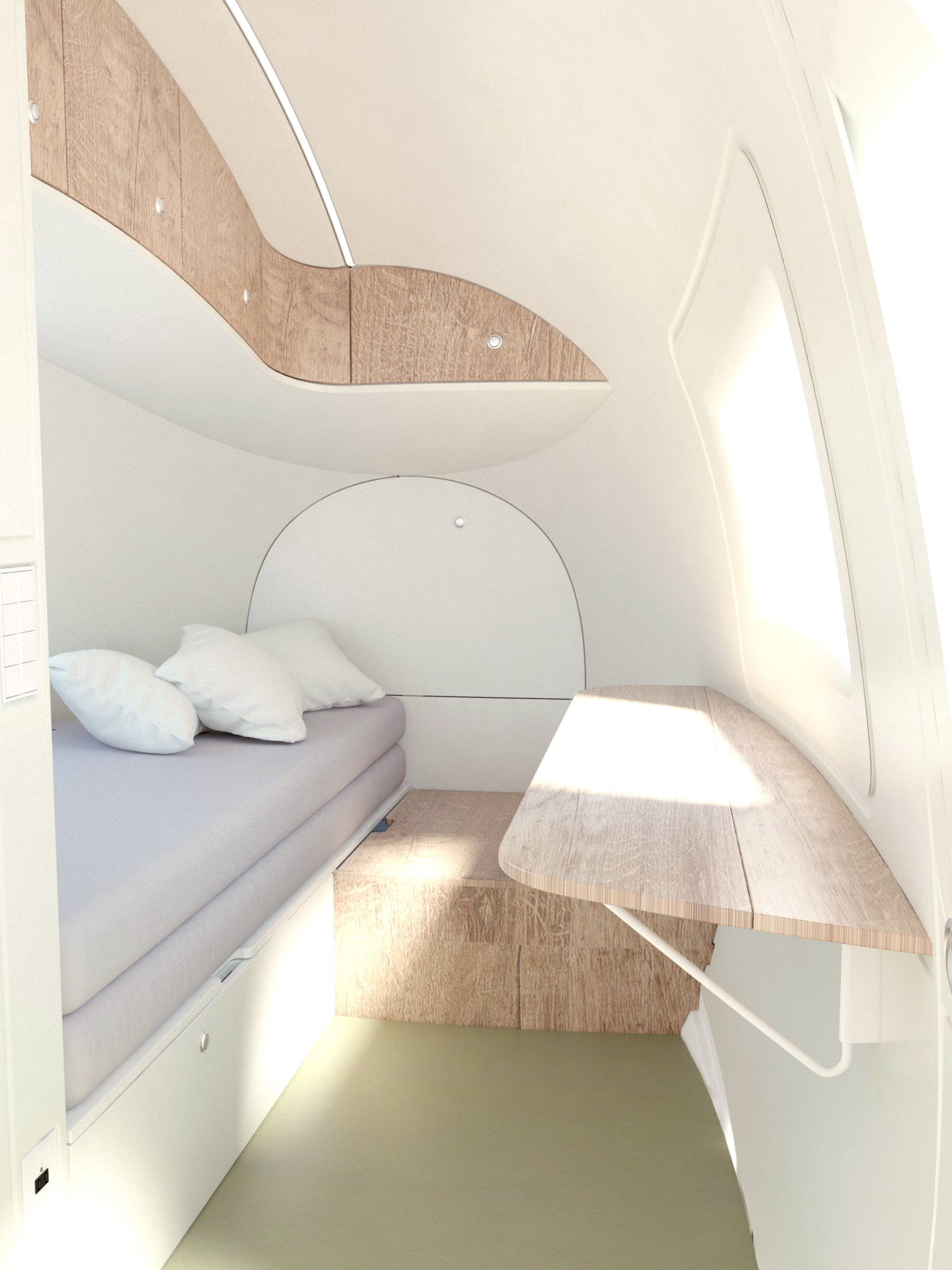 In its compact space, Ecocapsule® features everything you need. A fully functional kitchen, a living room space and a comfortable bed.